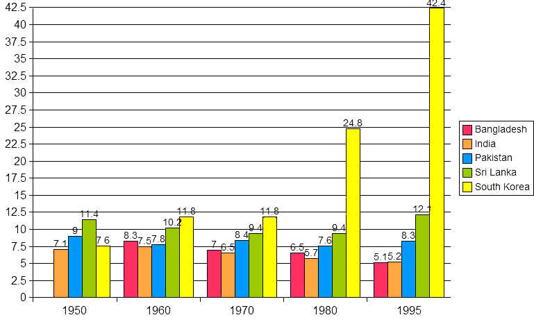 GDP per capita of South Asian economies and South Korea as a percent of the American GDP per capita, using data from: Table 1, S. Kelegama and K. Parikh, Political Economy of Growth and Reforms in South Asia (